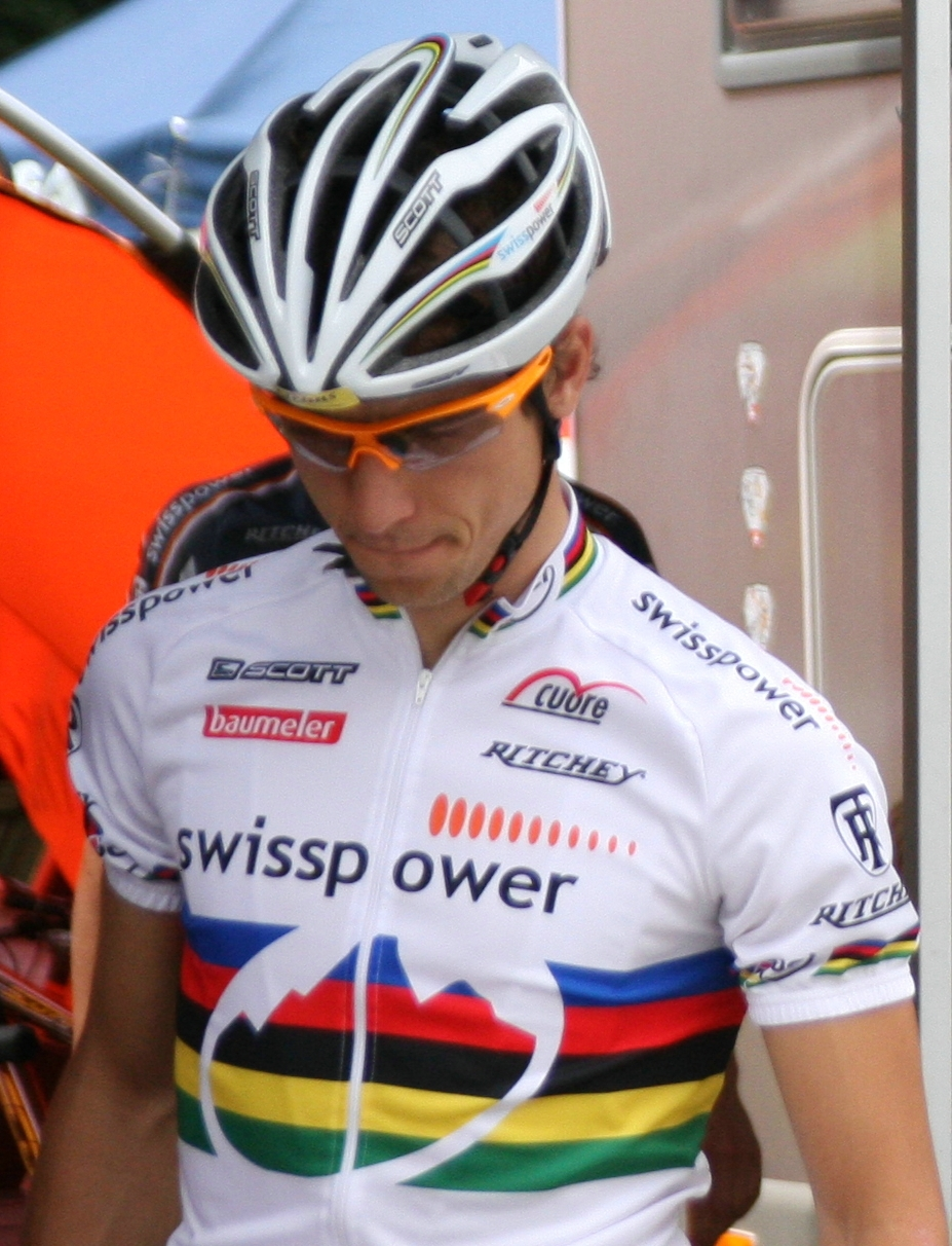 Nino Schurter